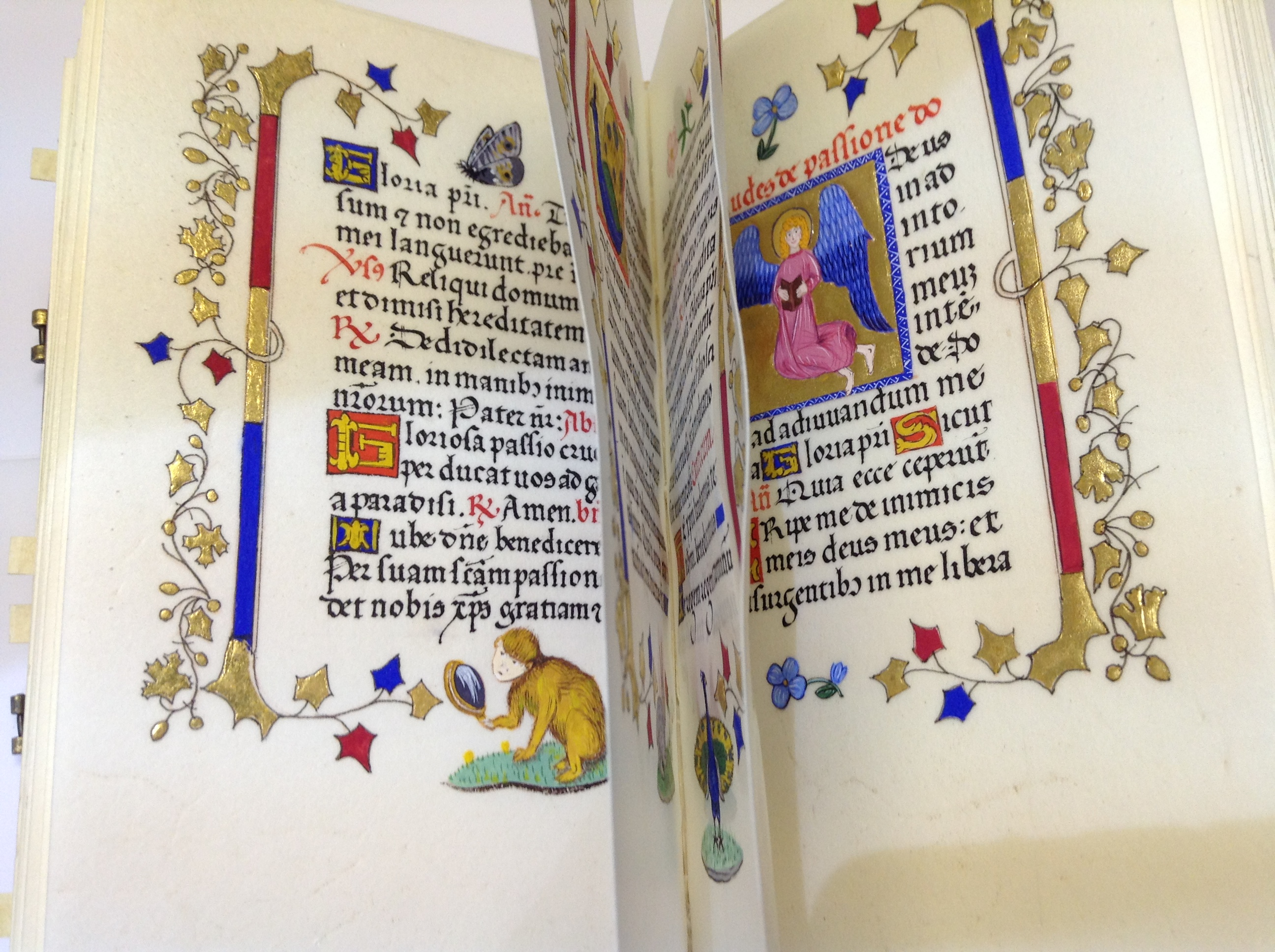 Replica Book of Hours created for BBC series Wolf Hall